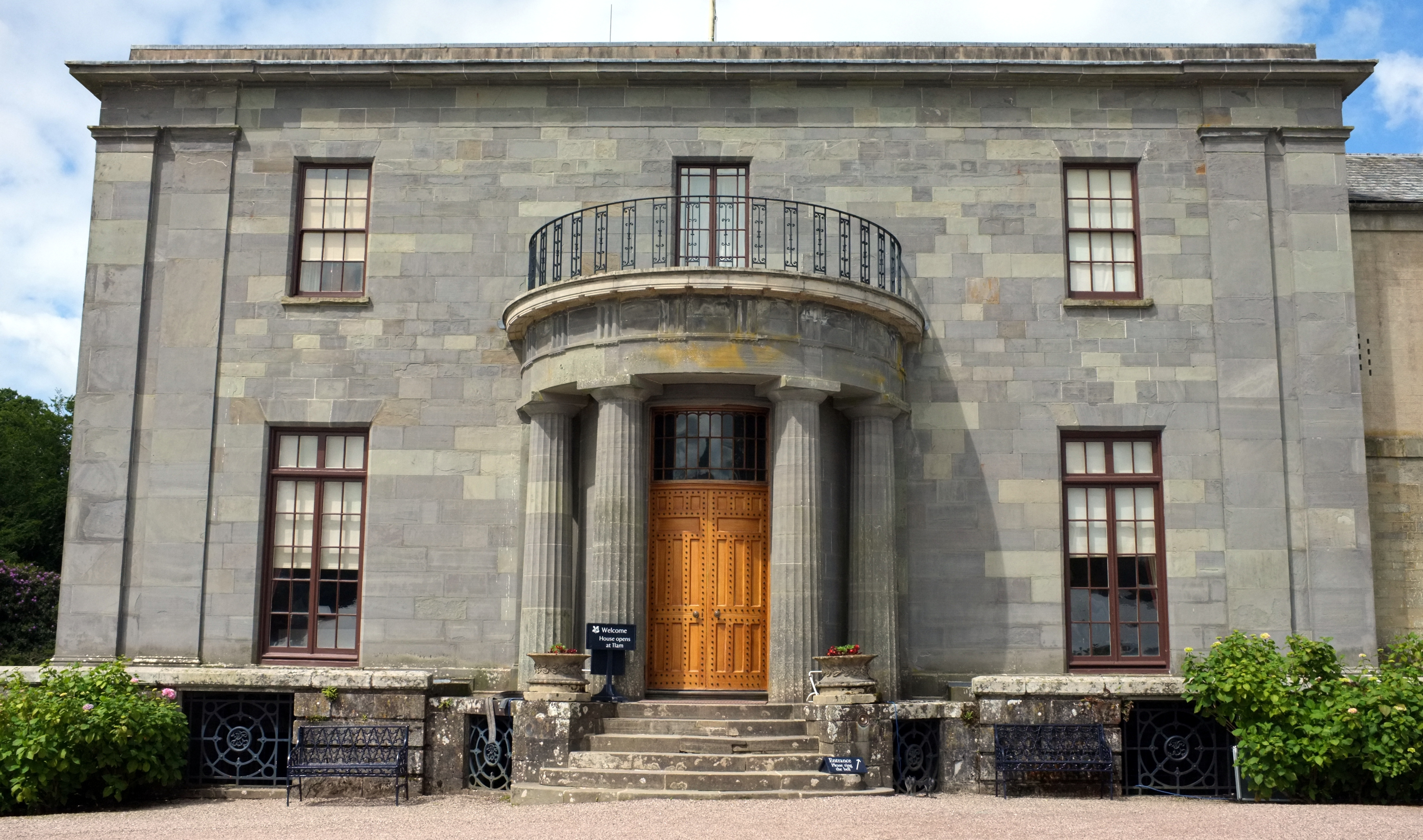 Arlington Court